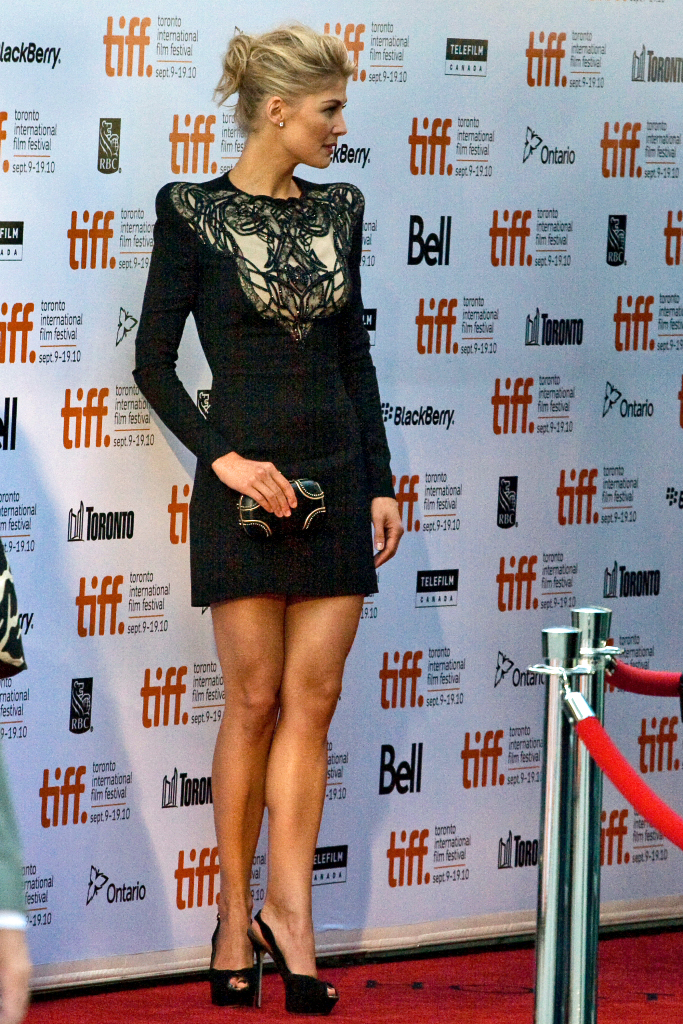 An English actress Rosamund Pike at the premiere of "Barney's Version" directed by Richard J. Lewis, during the Toronto International Film Festival, 2010.